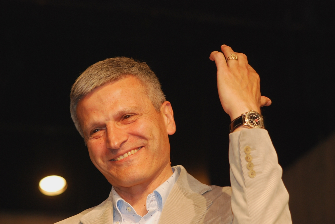 Nebojsa Bradić, current Minister of Culture Serbia, Winner of The Ring with figure of Joakim Vujić 2008.